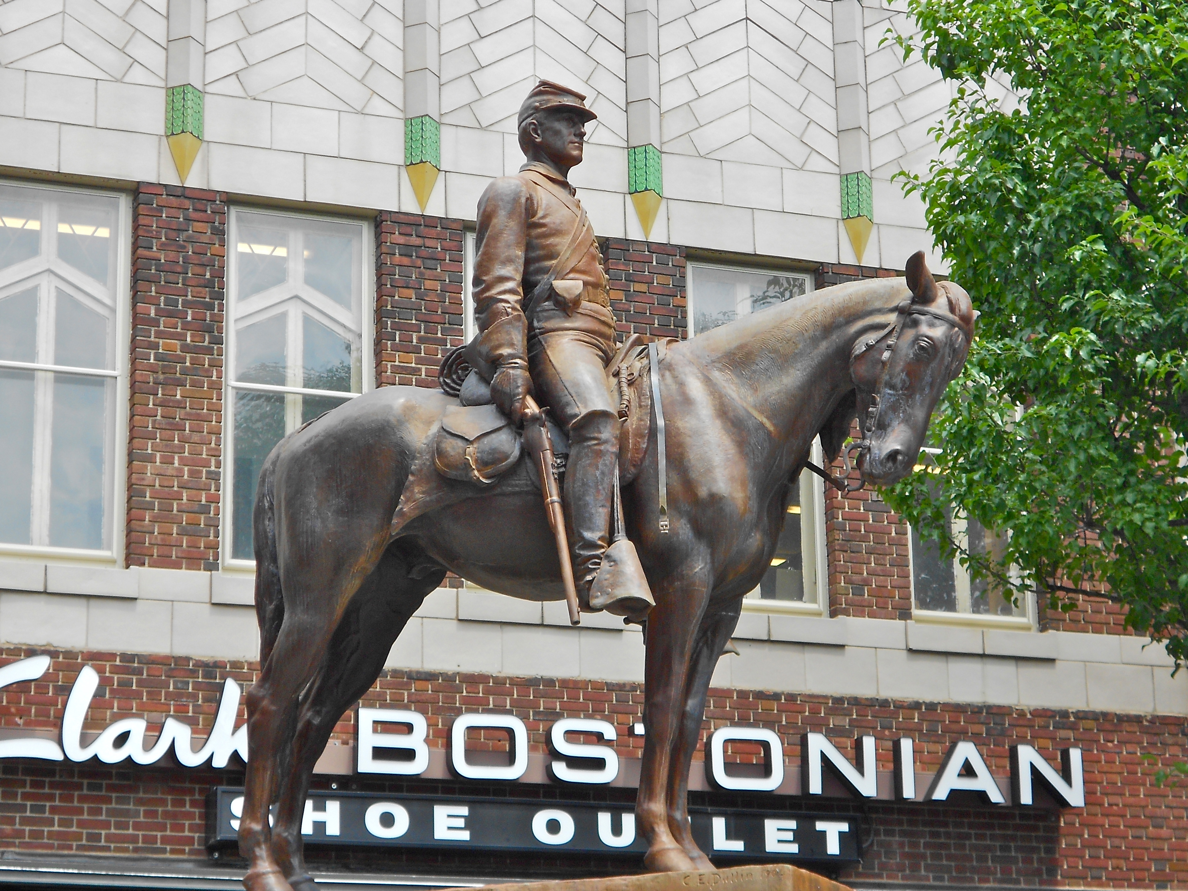 "Sentry" a 1904 sculpture erected by the Commonwealth of P{ennsylvania in the Center Square of Hanover, York County, Pennsyvania.